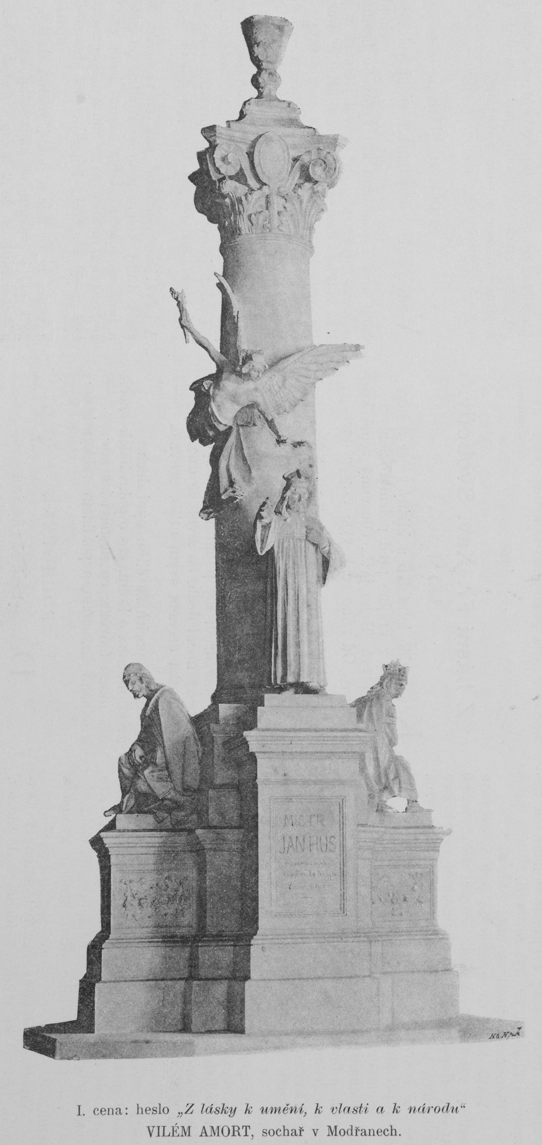 A winning proposal for Jan Hus Memorial in Prague, prepared in 1892 but never carried out. (The existing memorial was designed by Ladislav Šaloun in 1900 and completed in 1915.)